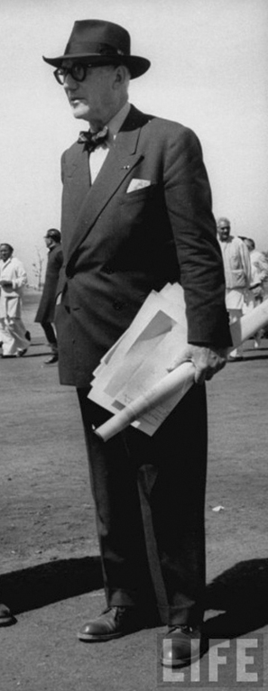 Pierre Jeanneret, Le Corbusier y Raoul La Roche